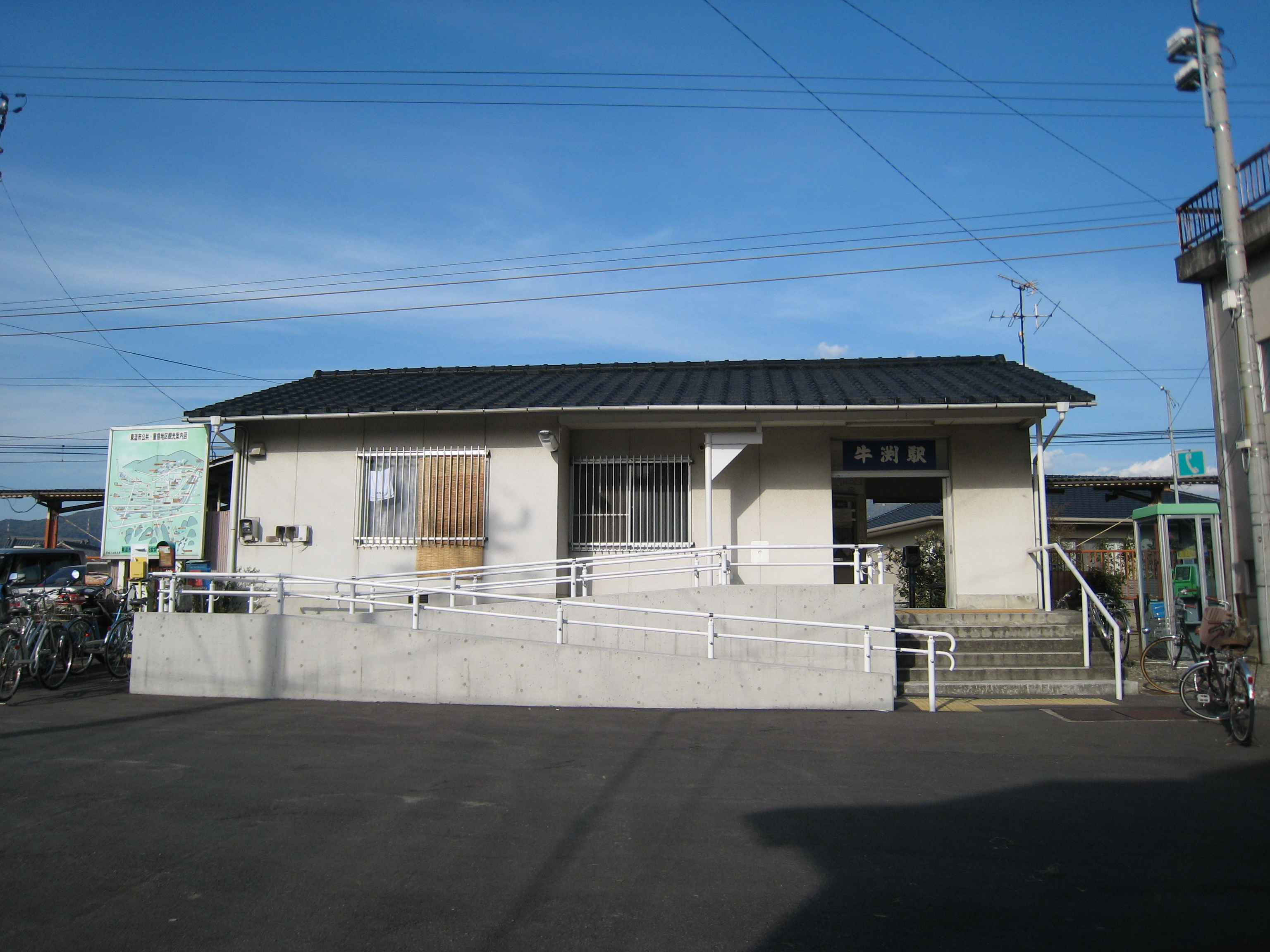 Iyo Railway [Sta.Ushibuchi]